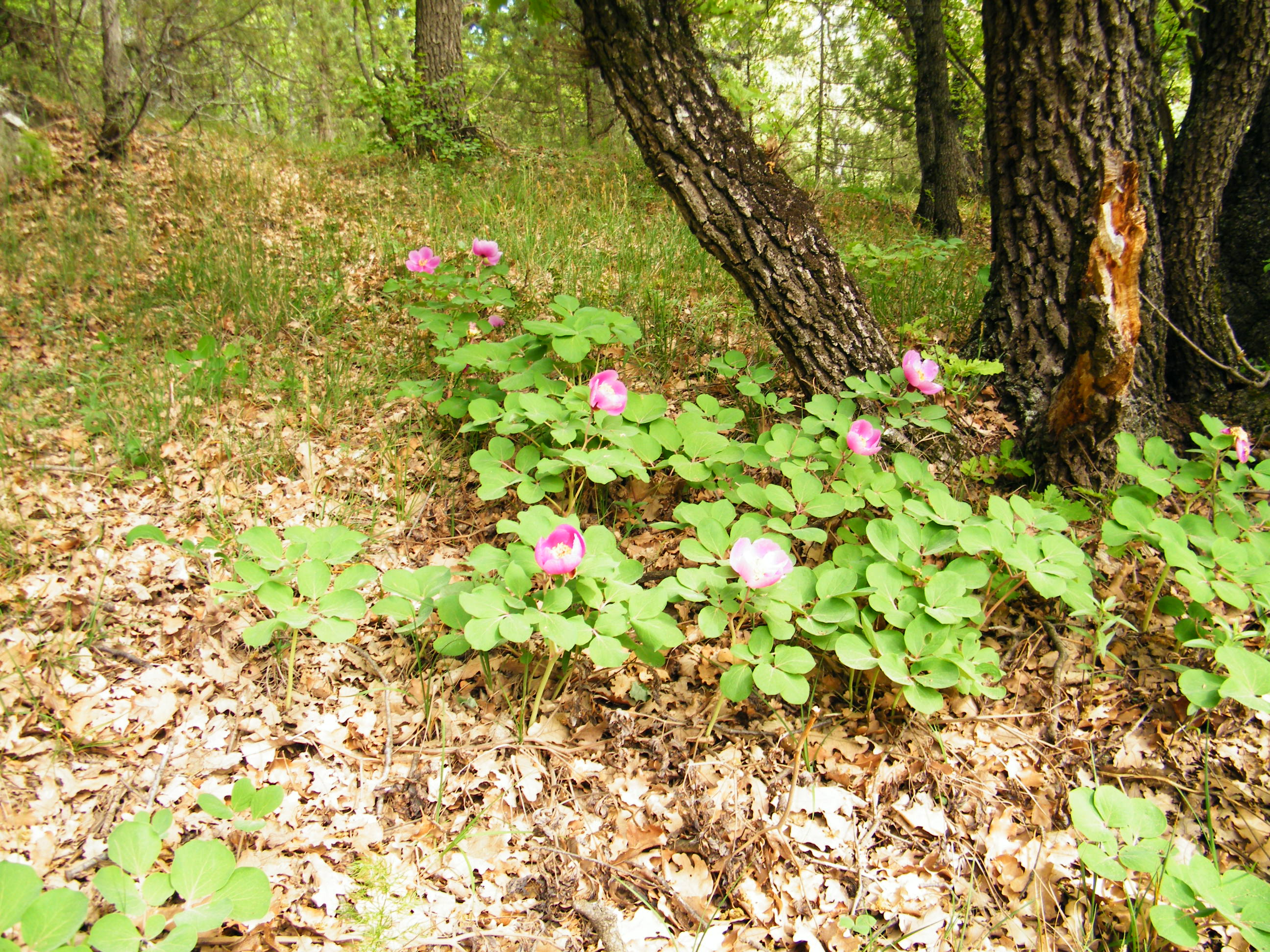 Paeonia daurica in Laspi Bay